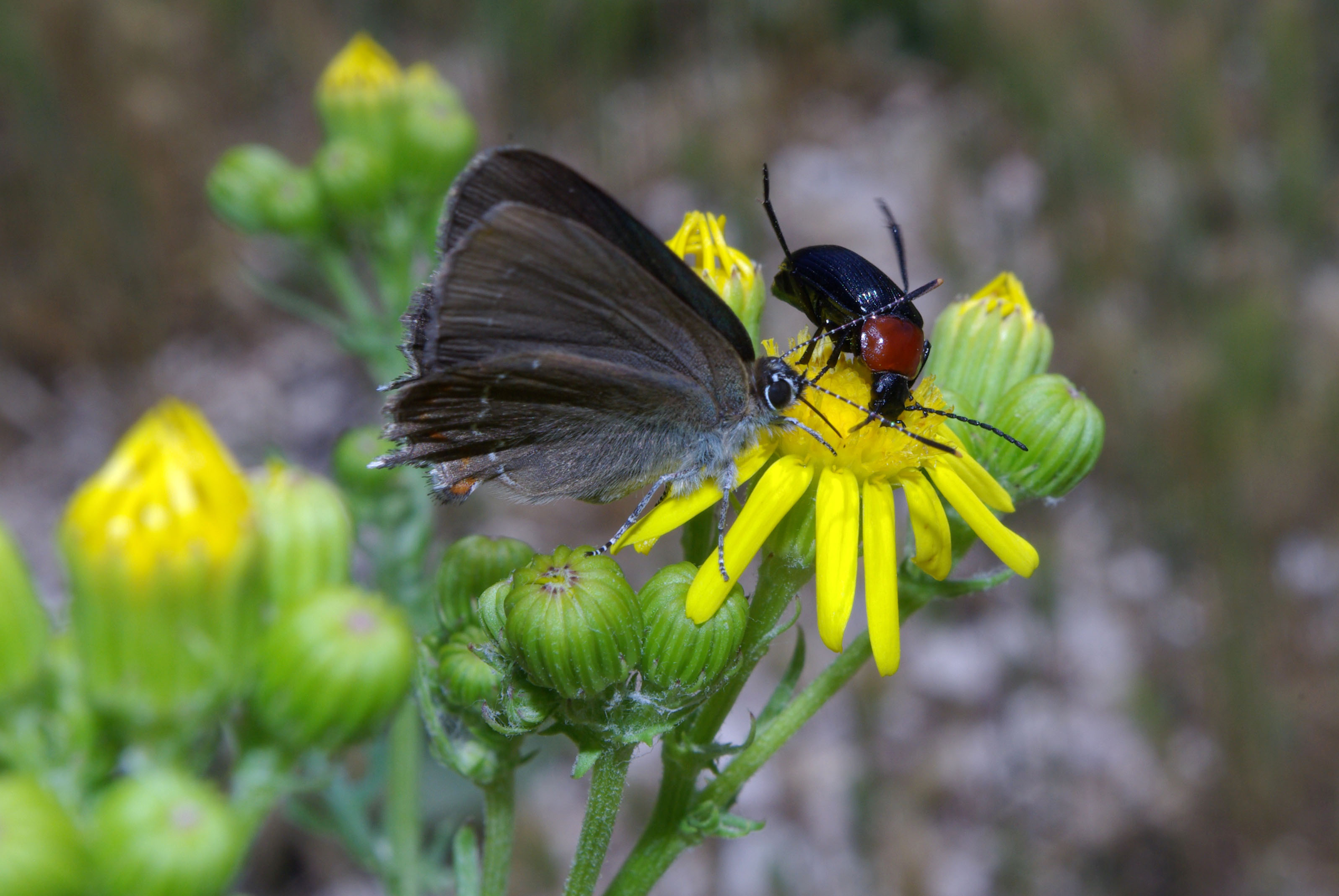 Butterfly (Satyrium ilicis) and beetle (Heliotaurus ruficollis). Burgos (Spain)